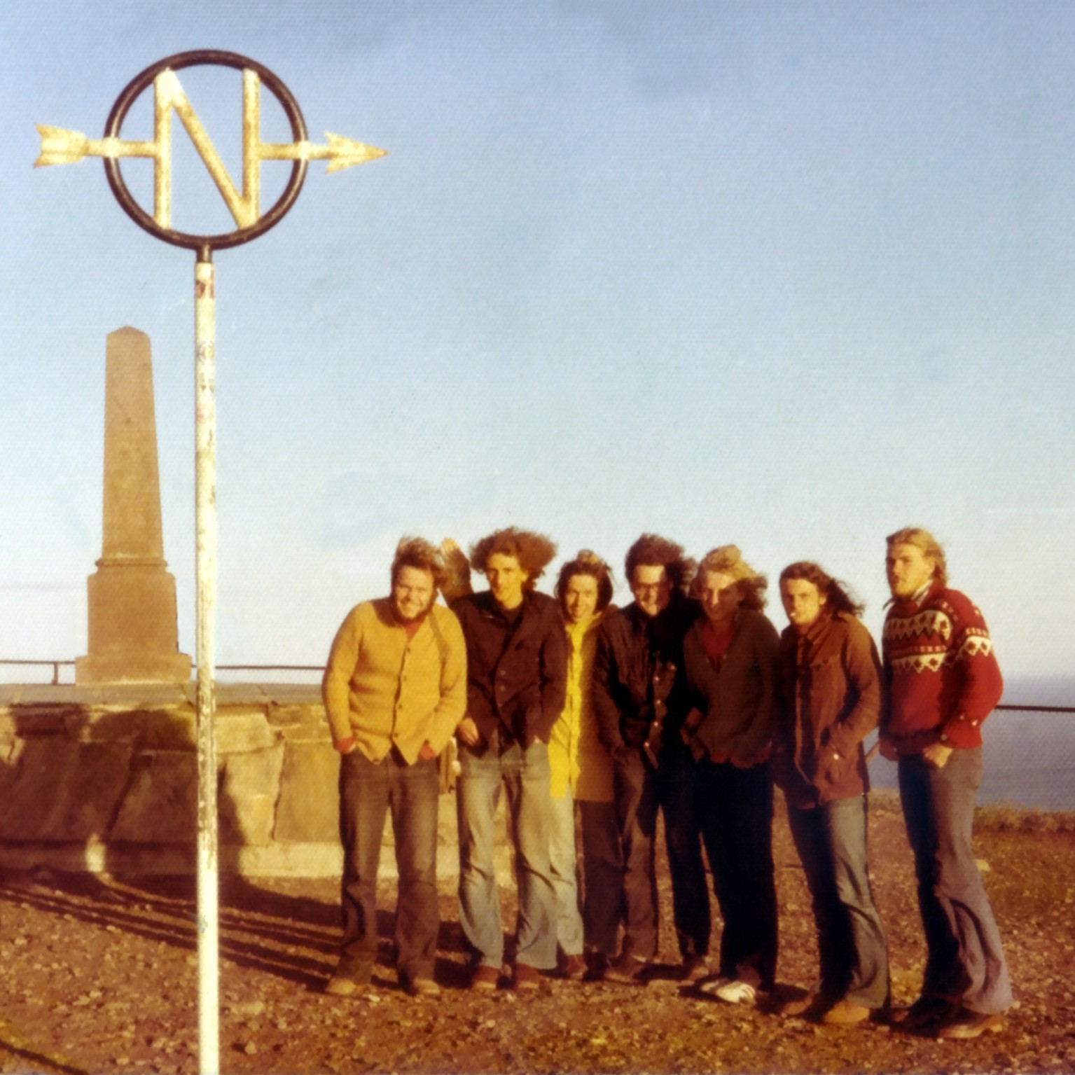 Obelisk at North Cape by King Oscar II as seen in 1973